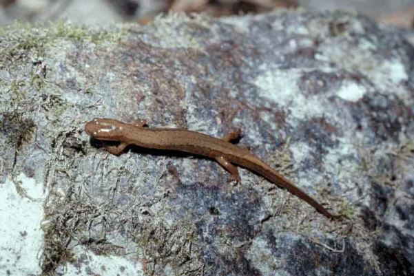 Junaluska salamander (Eurycea junaluska)